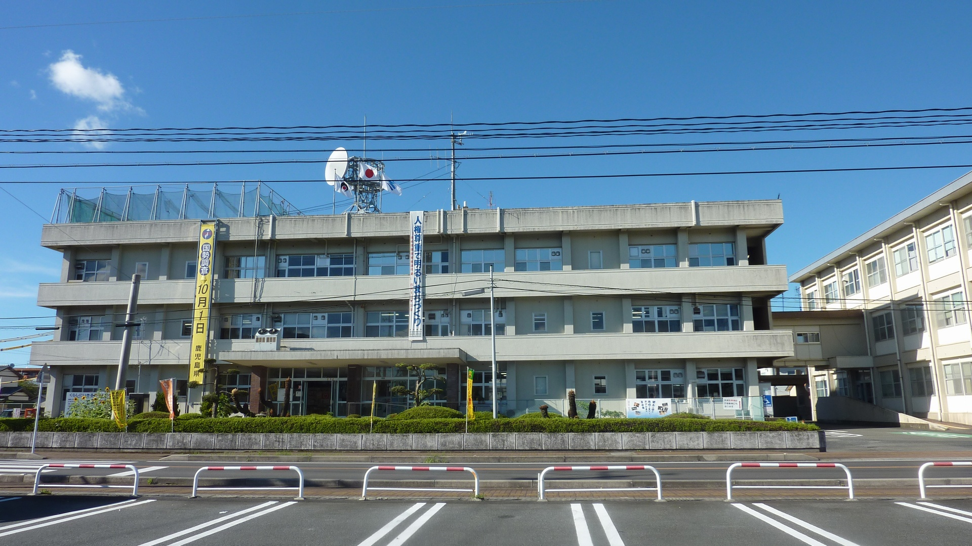 Kagoshima Prefectural Nansatsu Bureau (Minamisatsuma City)